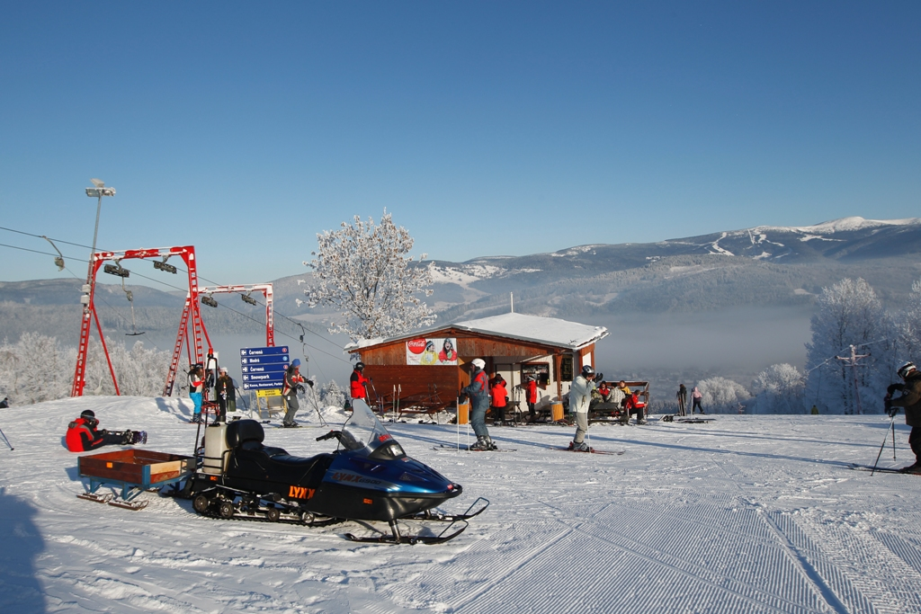 Kamenec